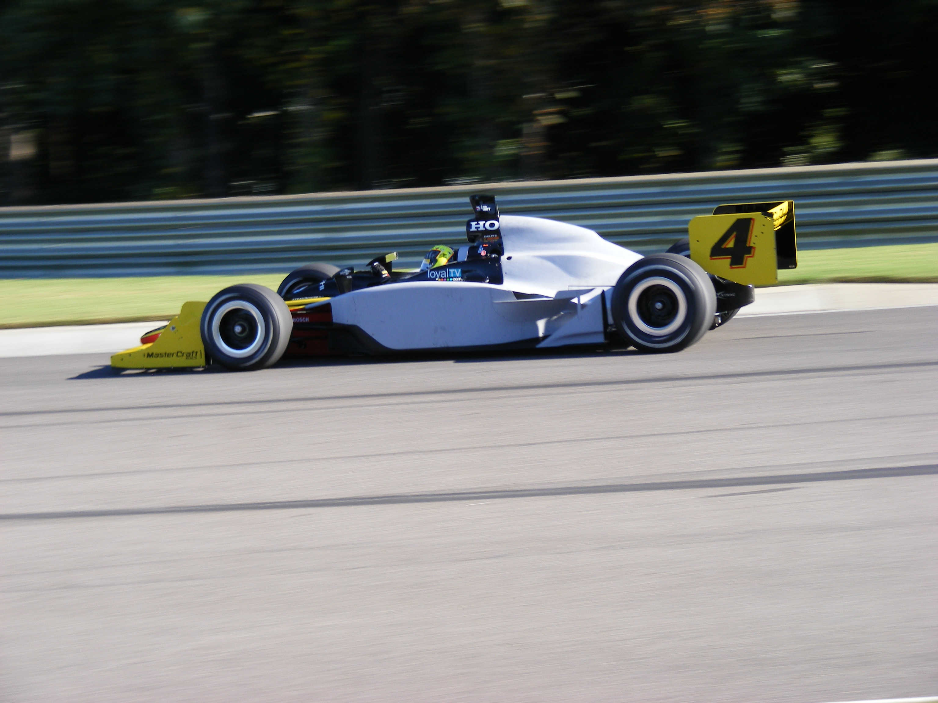 Vitor Meira testing at Barber Motorsports Park in 2008.